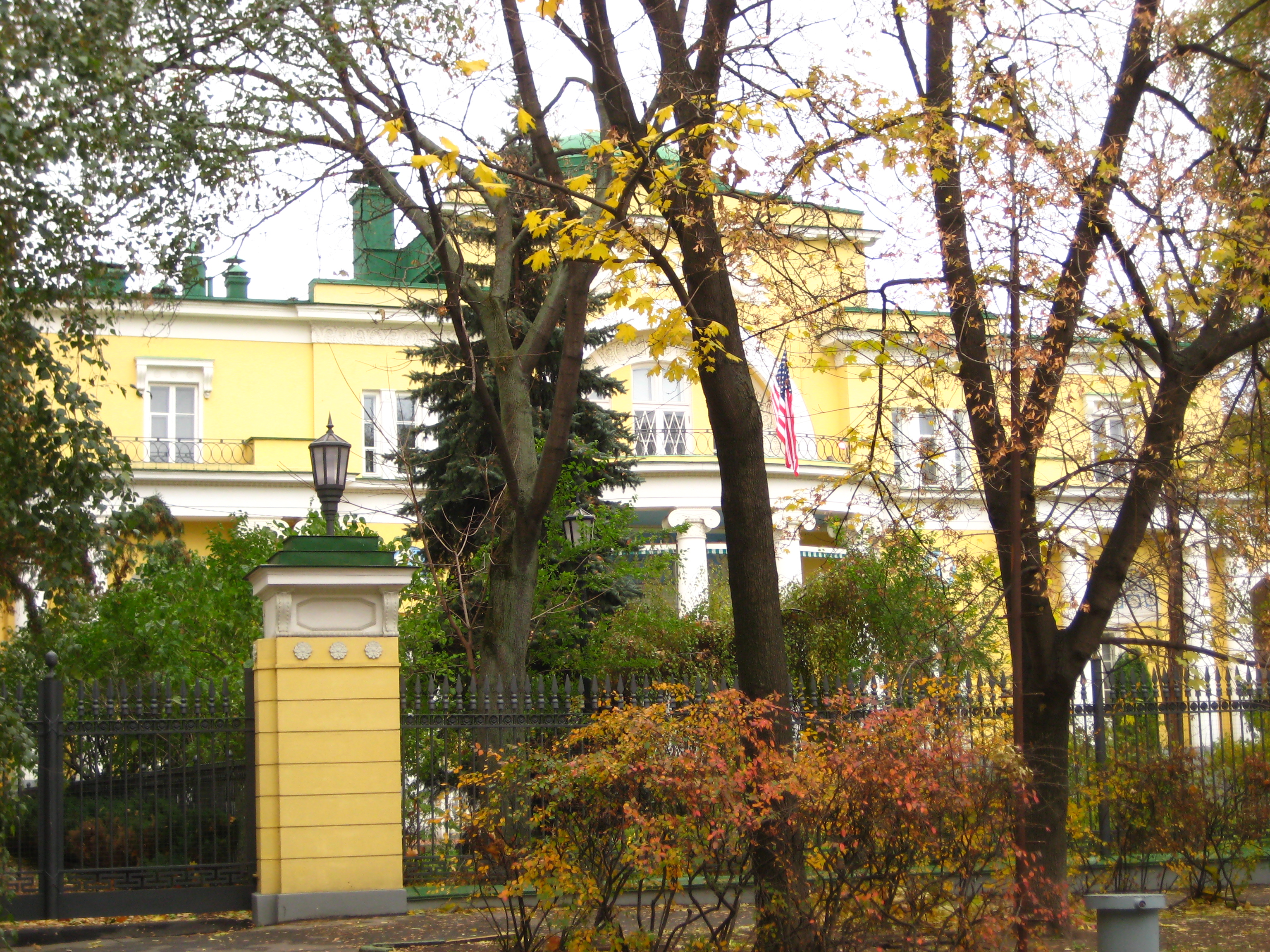 Nikolai Vtorov mansion (Spaso House), Moscow. 1913-1915. Residence of United States ambassador in Moscow.